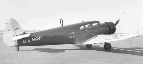 Fairchild JK-1 (Model 45) executive transport operated by the United States Navy.